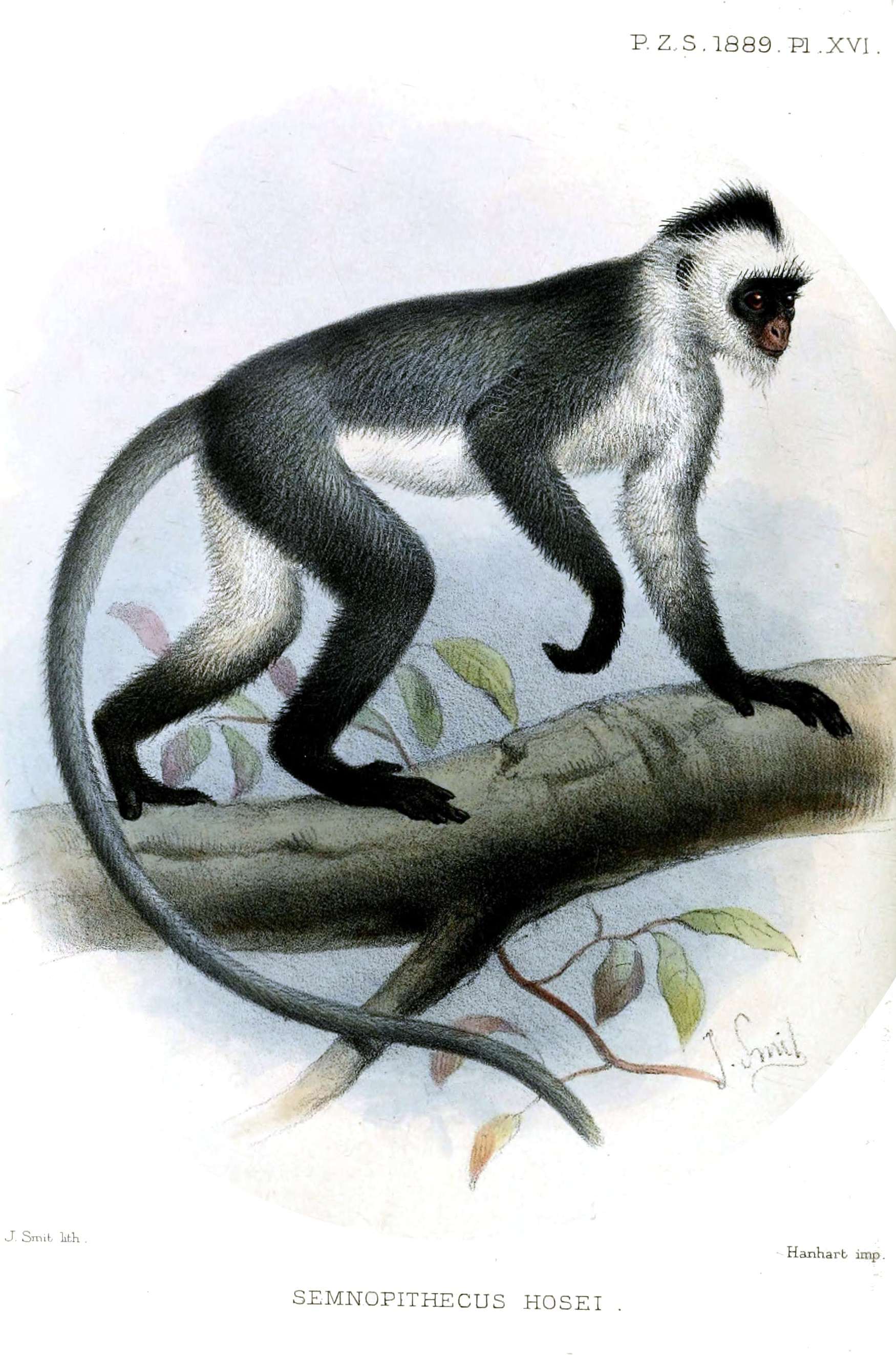 Hose's Langur, adult male